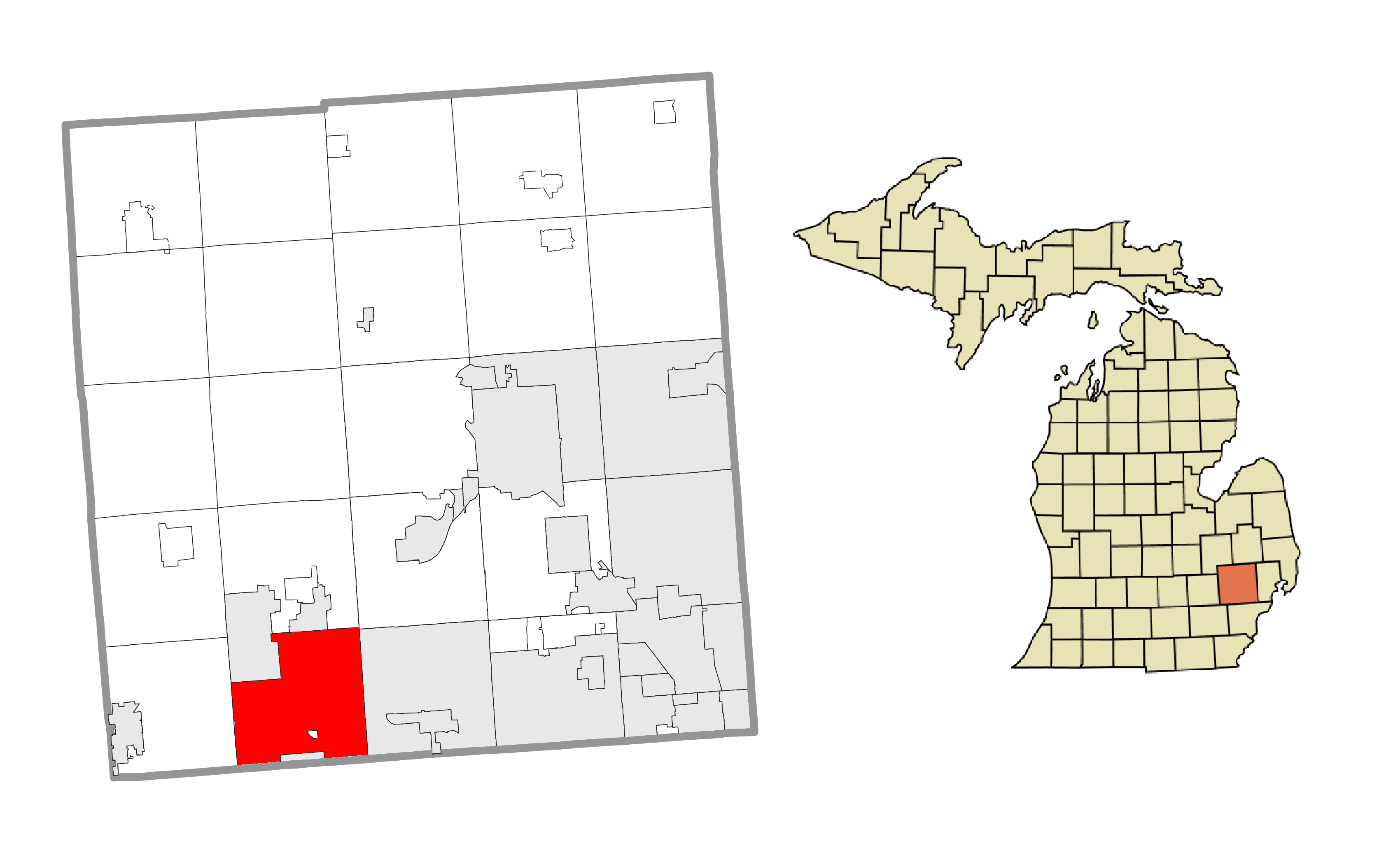 Novi, MI